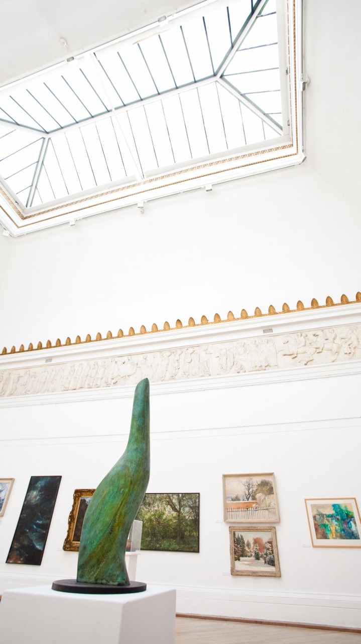 RWA Galleries